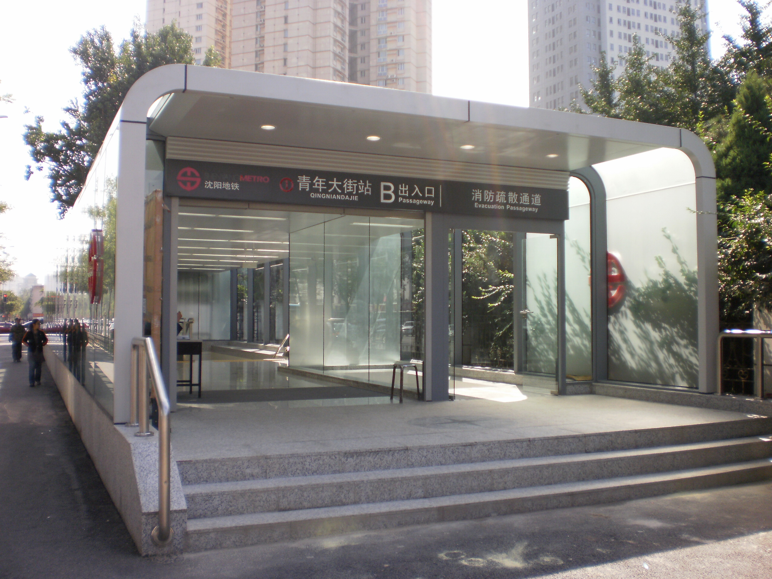 Shenyang metro, Qingnian dajie zhan